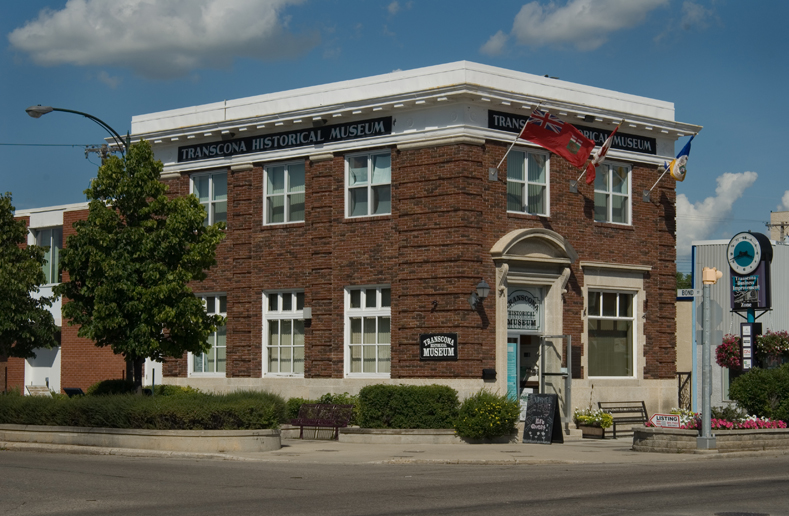 Transcona Historical Museum